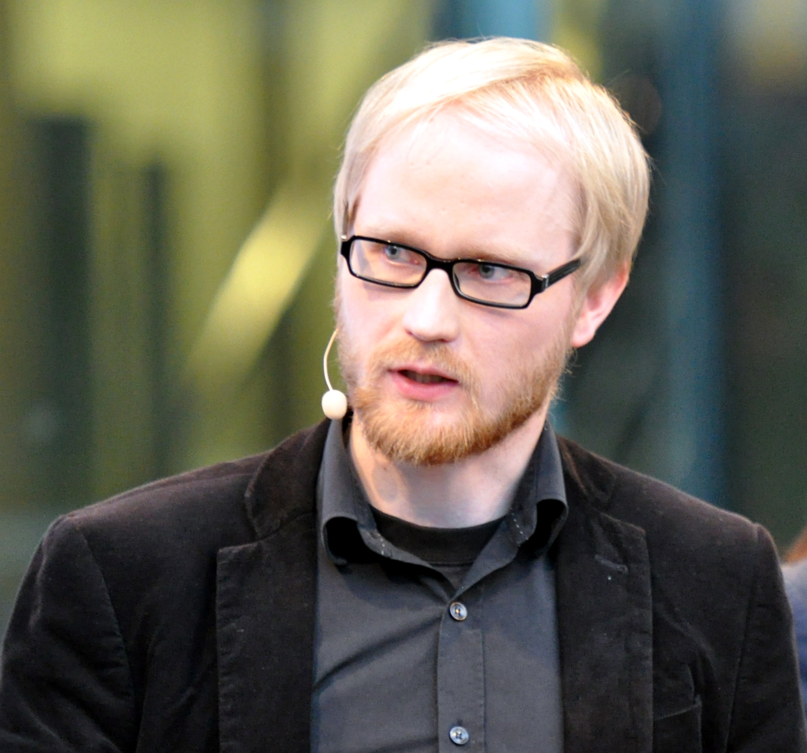 Pekka Vahvanen is a Finnish journalist.